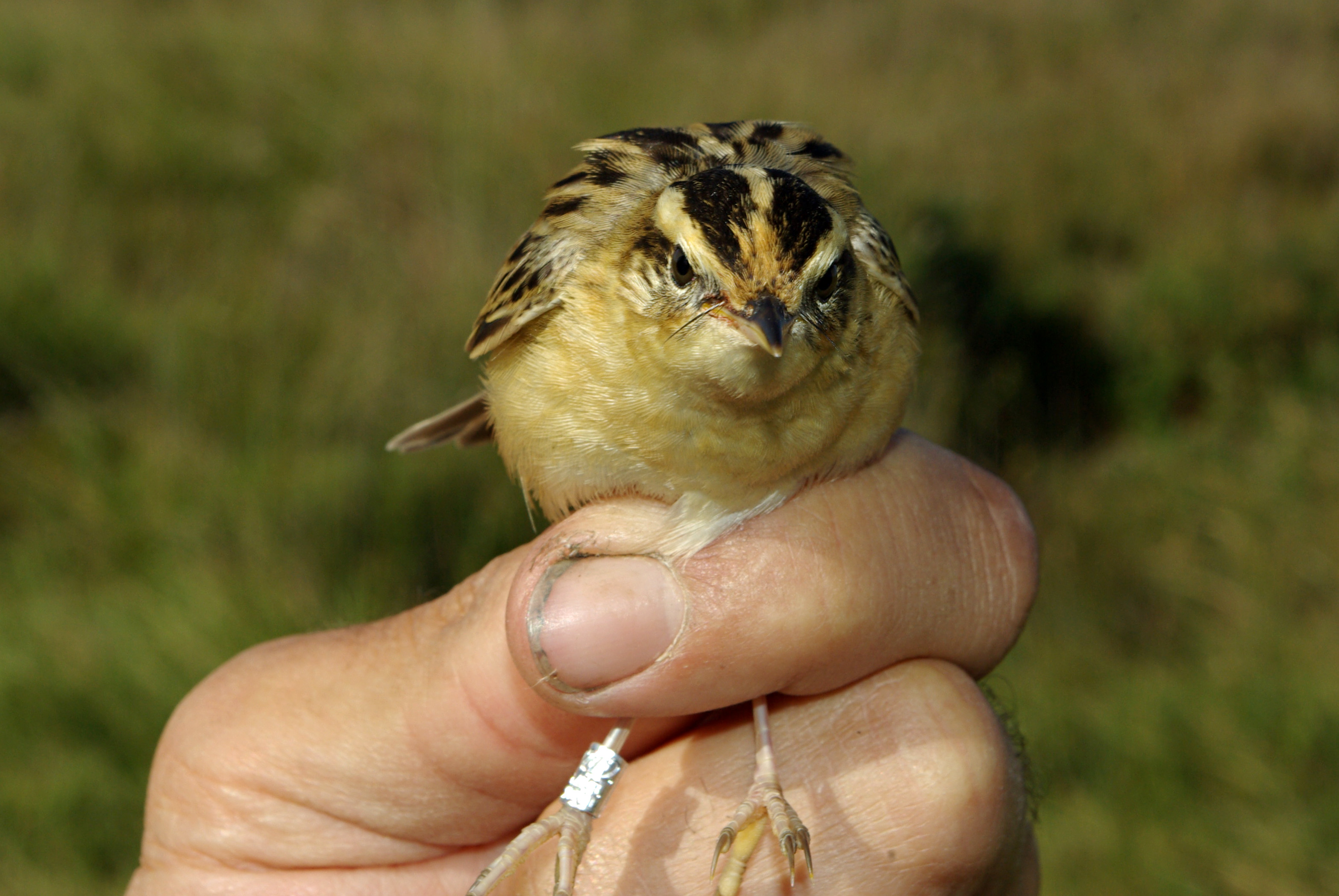 Aquatic Warbler (Acrocephalus paludicola) ringed in Zambroncinos del Páramo lagoon (León, Spain)